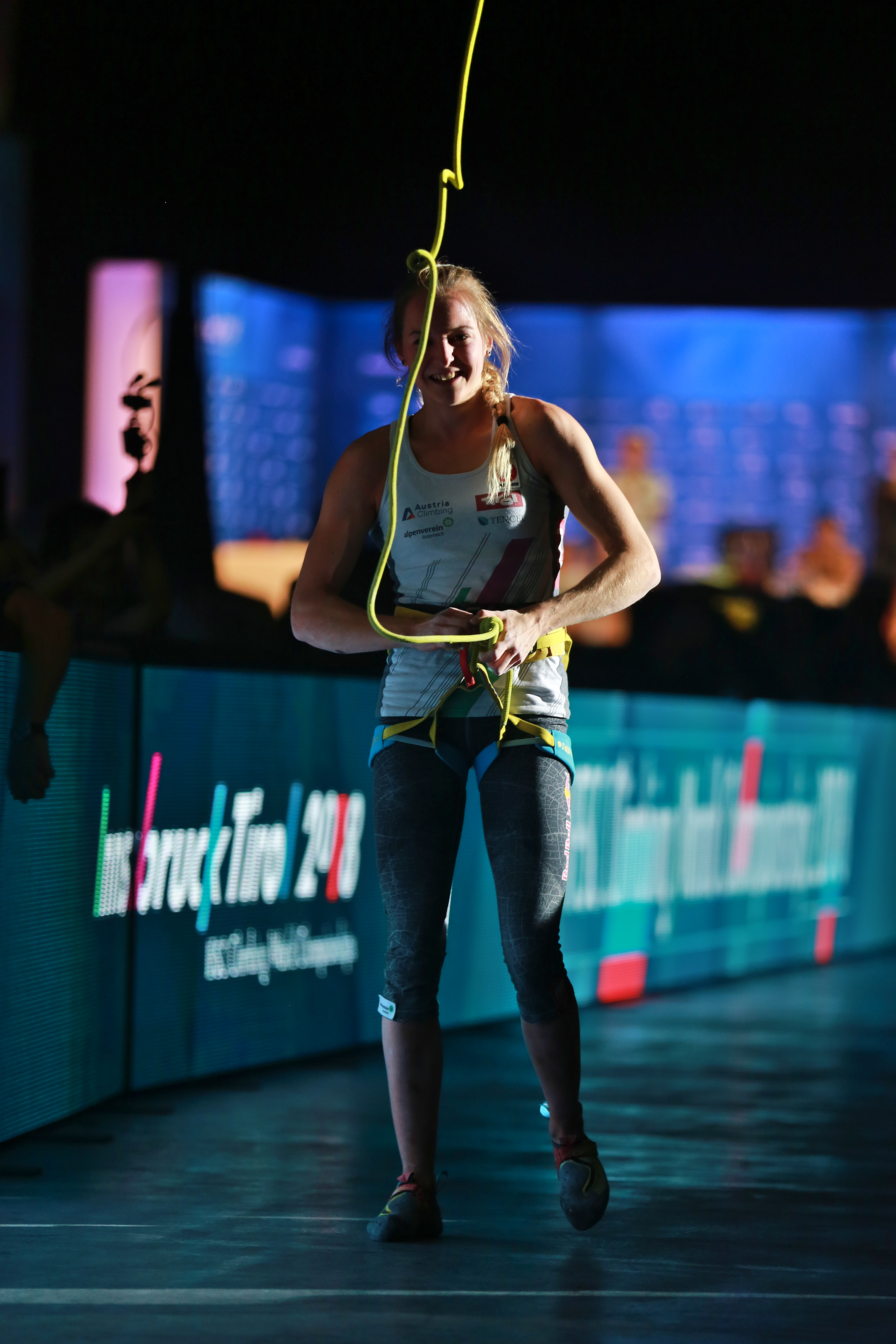 IFSC Climbing World Championships Innsbruck 2018 Final WOMAN lead 92 PILZ Jessica AUT